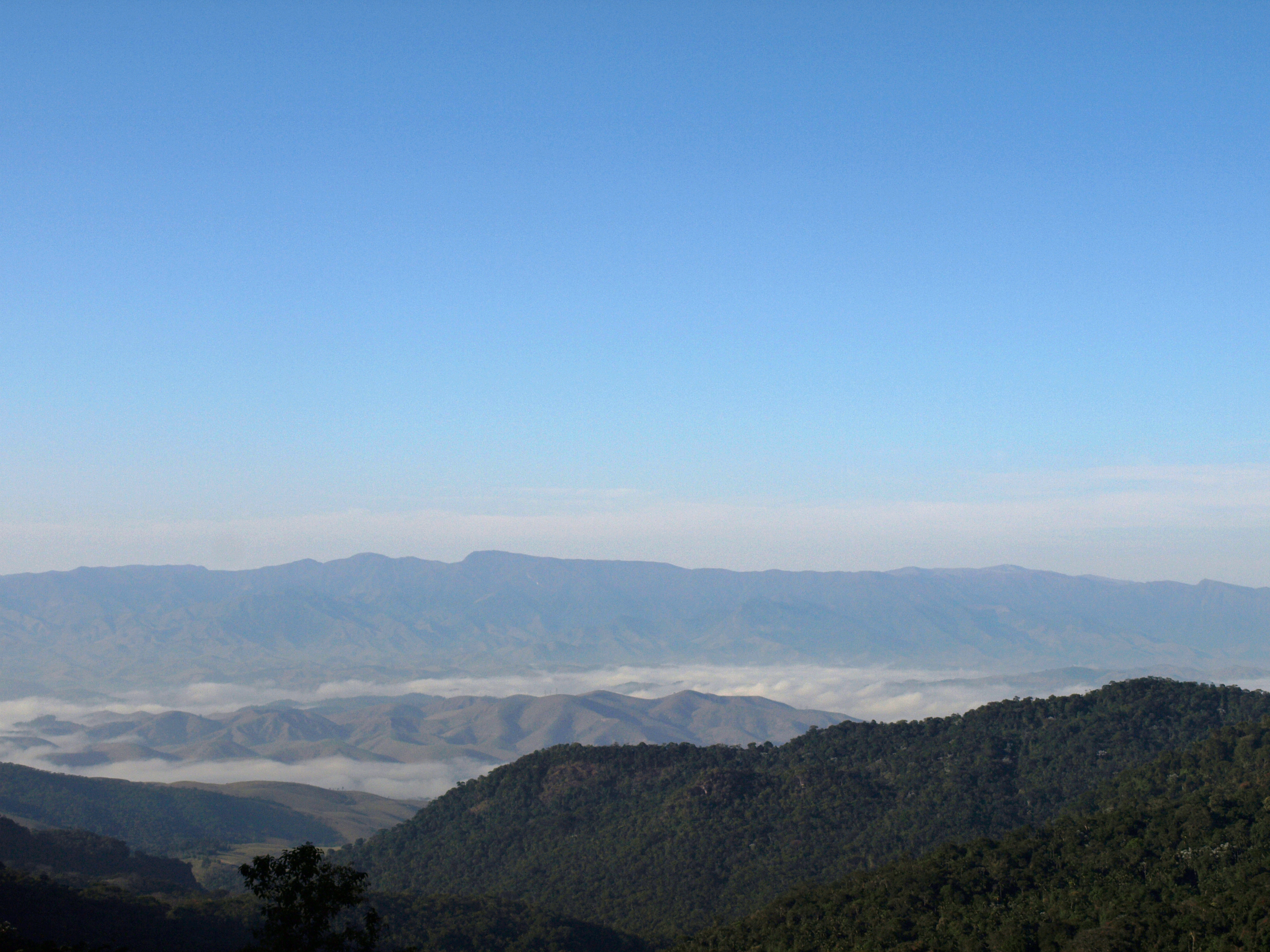 NP Itatiaia, Brazil, sea of clouds in the Northern area of the park